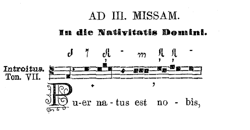 Beginn des Introitus "Puer natus" aus dem Graduale ad normam cantus S. Gregorii Michael Hermesdorffs